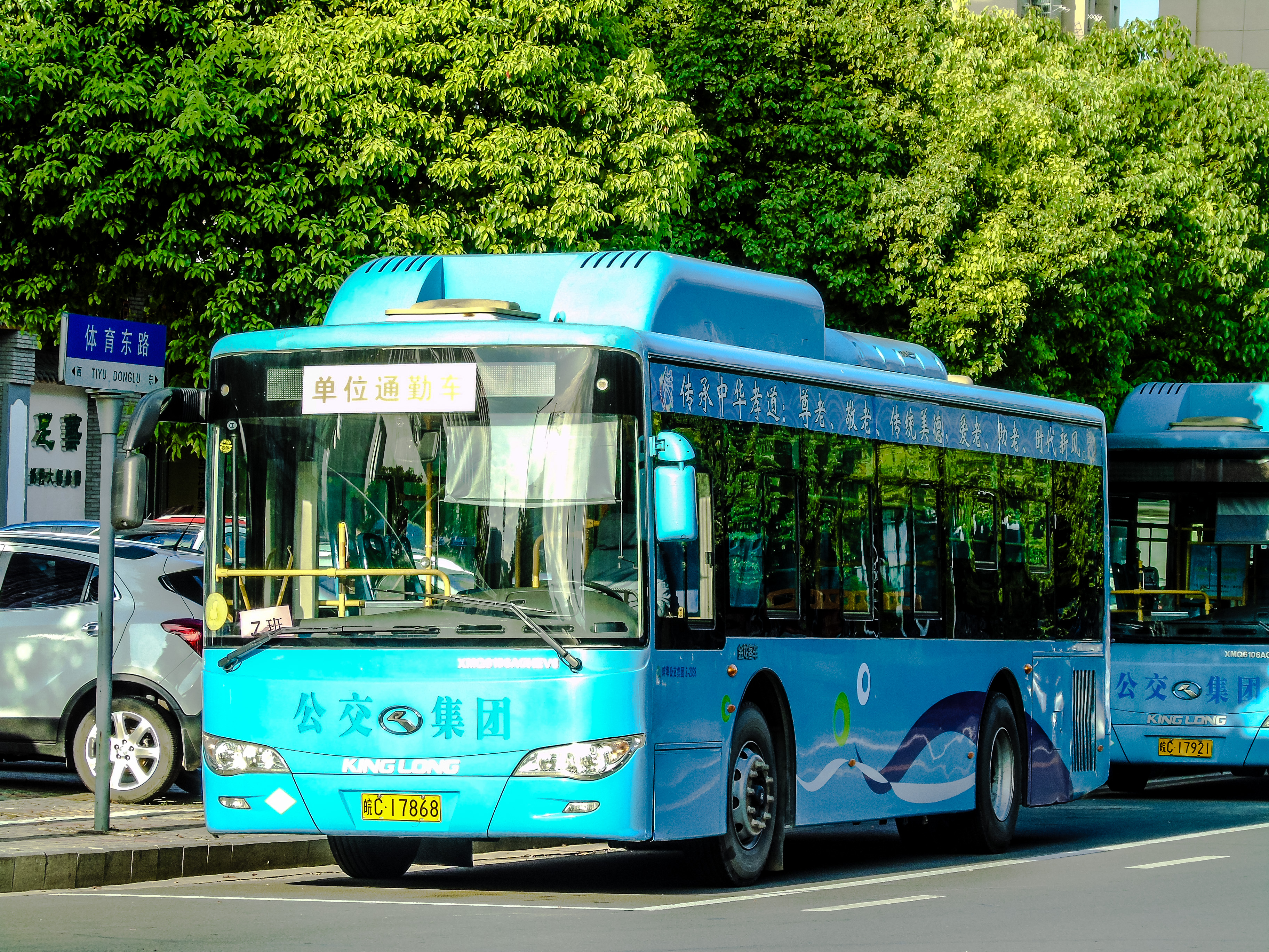 Bengbu Bus Regular bus 3